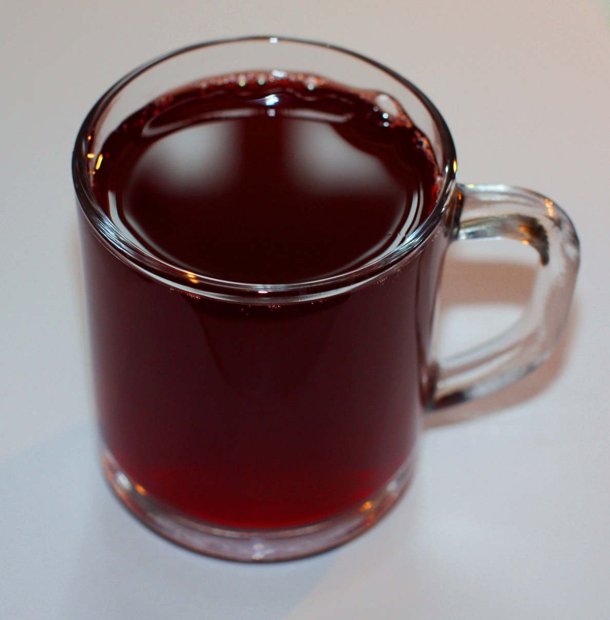 Mors